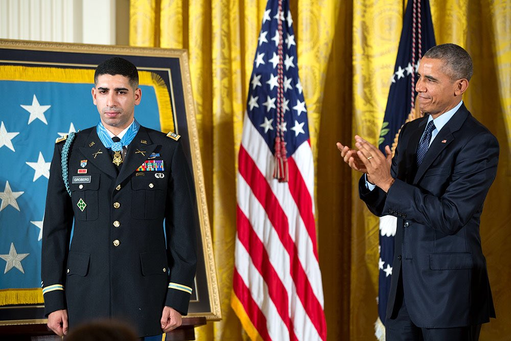 Retired Army Capt. Florent Groberg is awarded the Medal of Honor by President Barack Obama at a White House ceremony. Groberg is the first foreign-born Medal of Honor recipient of the War in Afghanistan and the 13th overall.